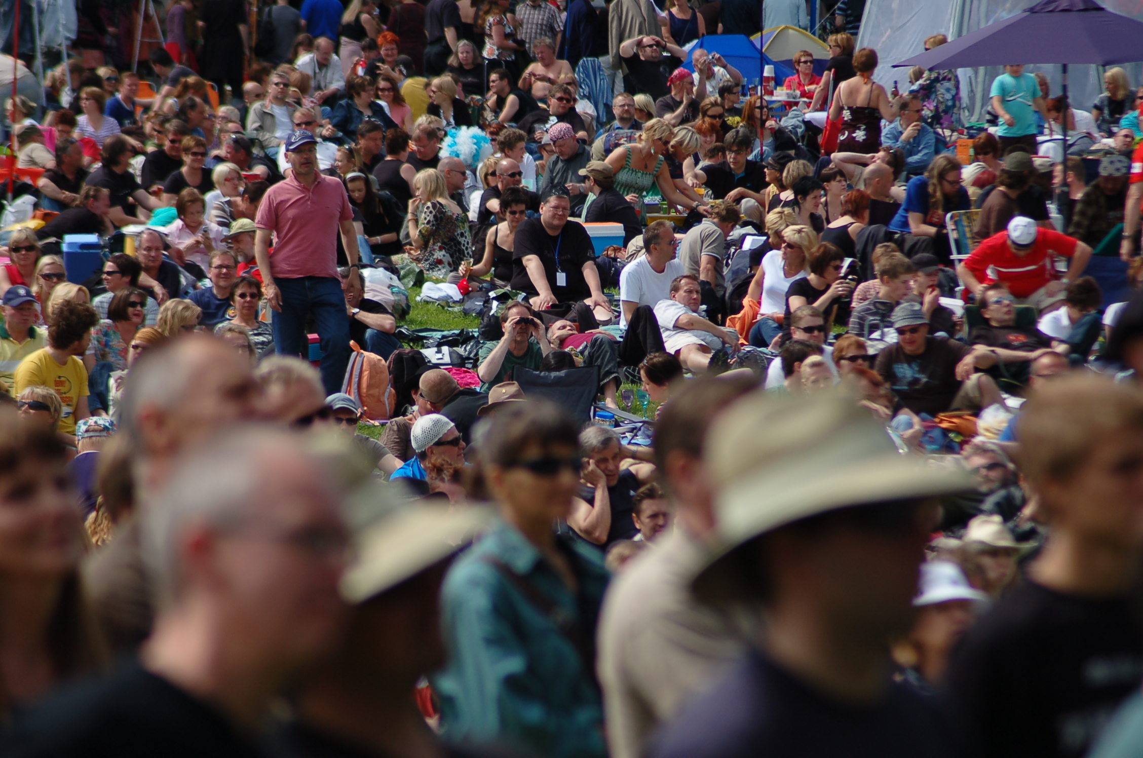 Audience in the Puistoblues Festival in the city of Järvenpää, Finland, in 2007.